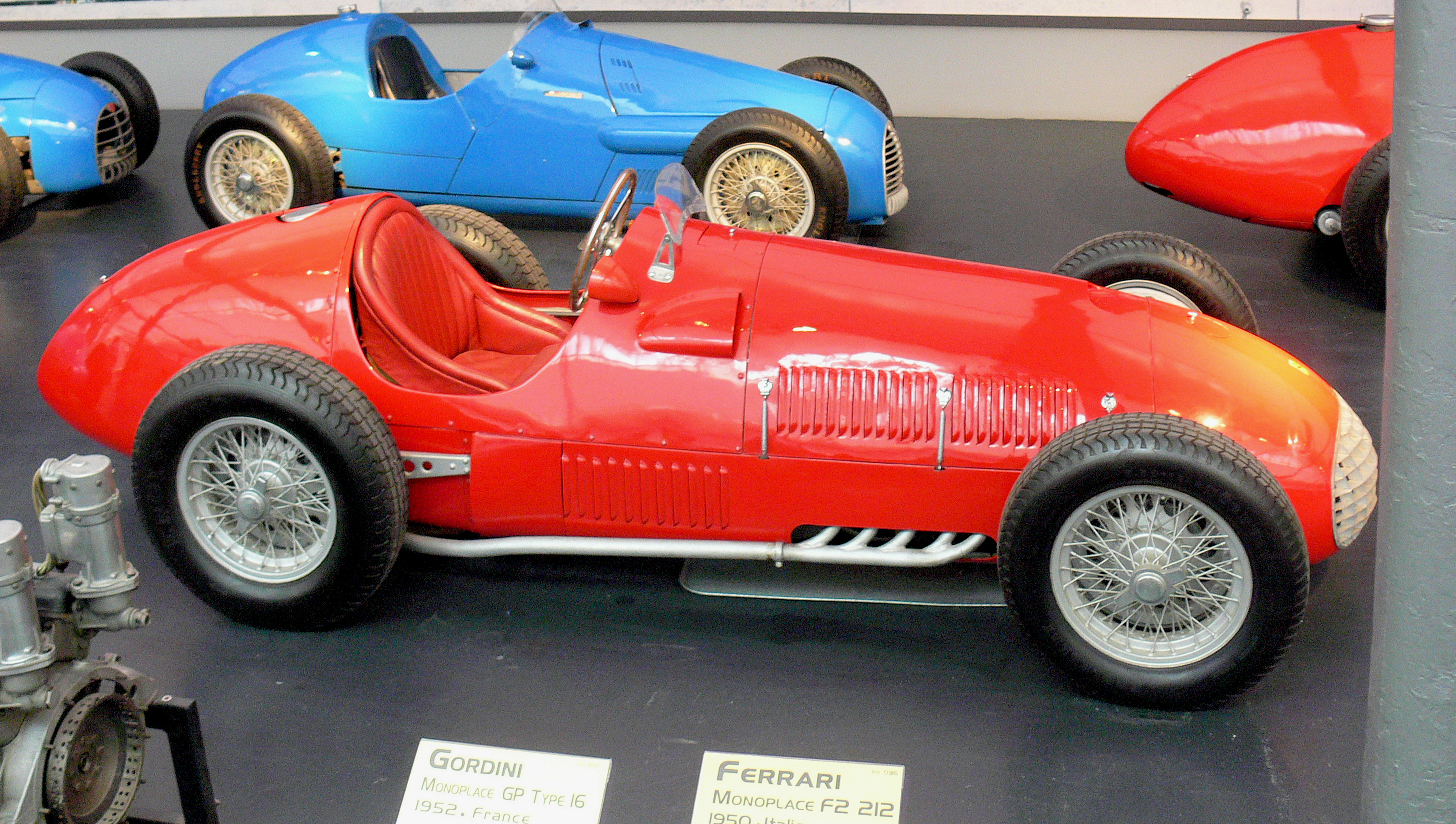 Ferrari 212 in the Musée National de l'Automobile (Mulhouse)